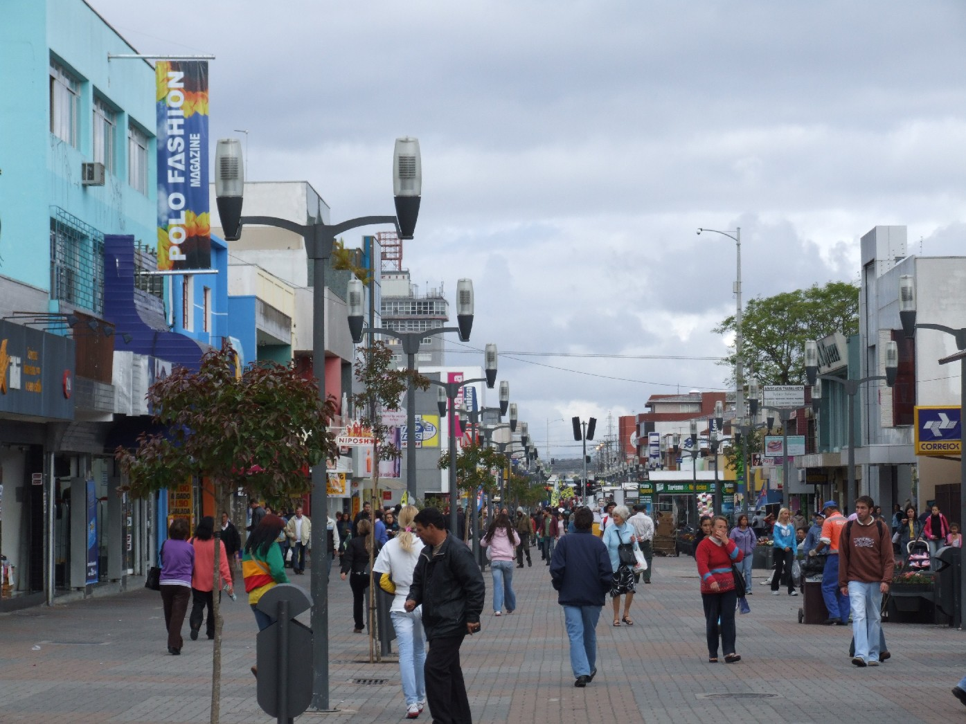 Partial aspect of the Street November 15, in the São José dos Pìnhais downtown, state of Paraná, Brazil